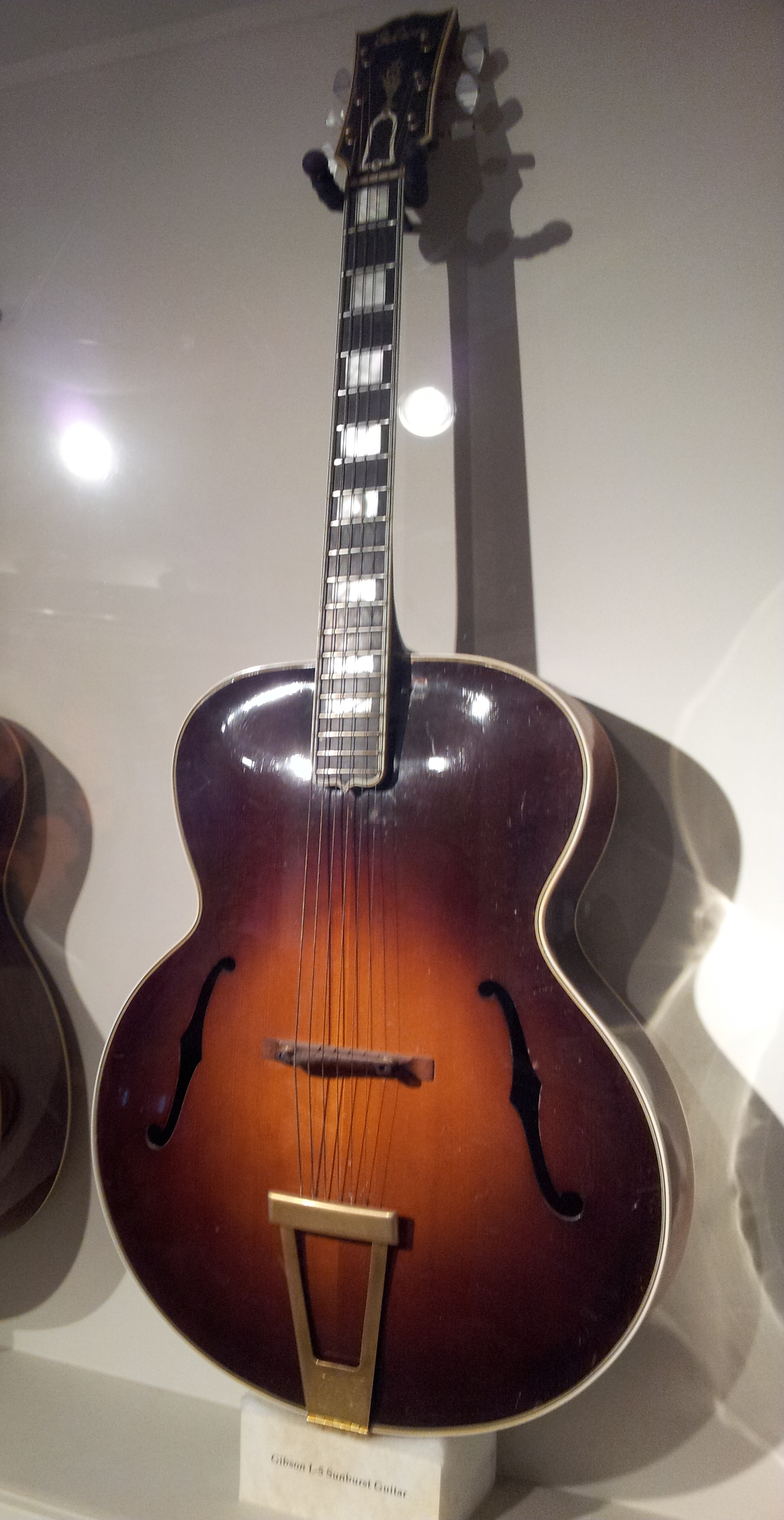 Gibson L-5 sunburst guitar, Museum of Making Music